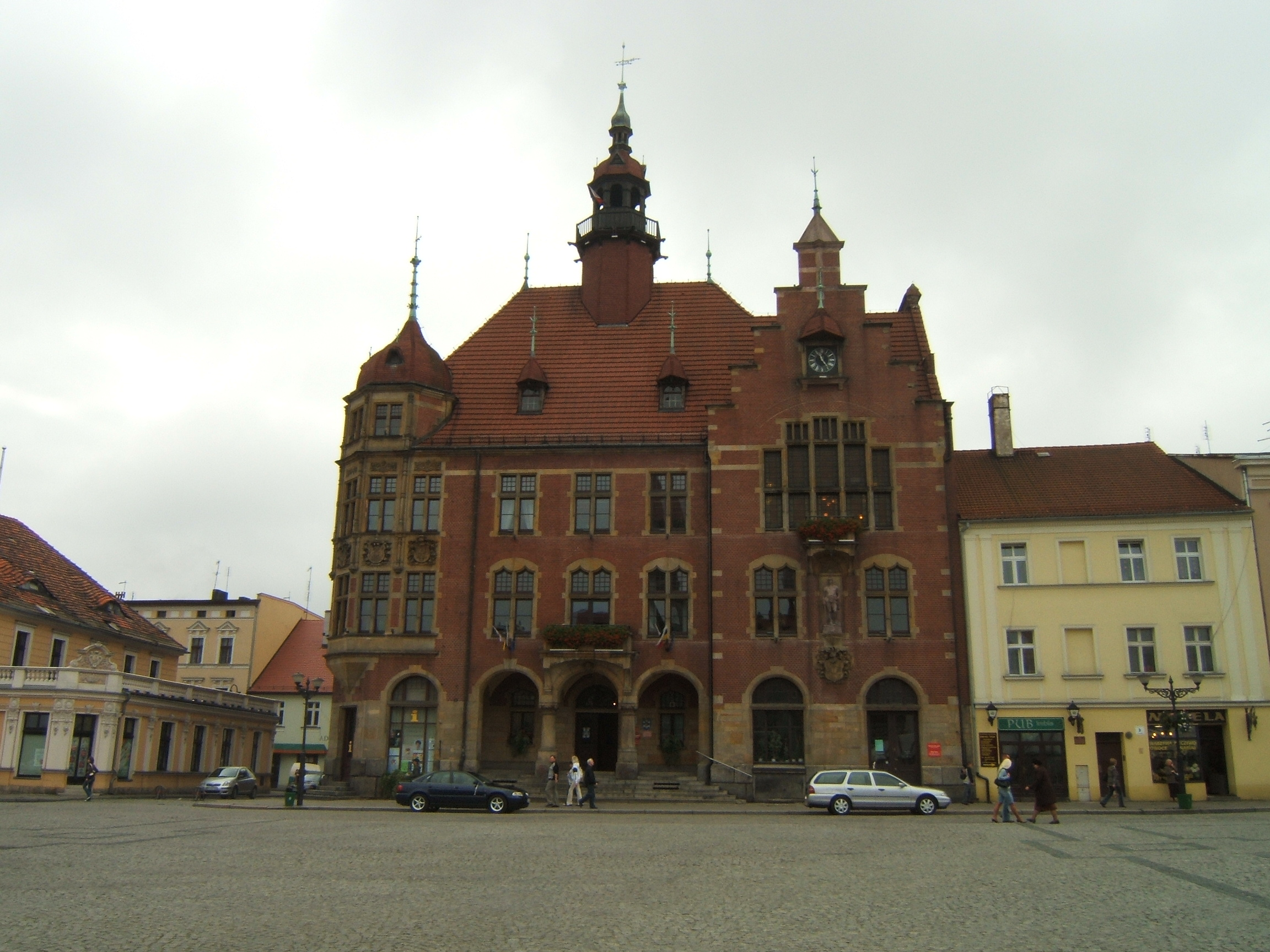 Town hall in Tarnowskie Góry, Poland